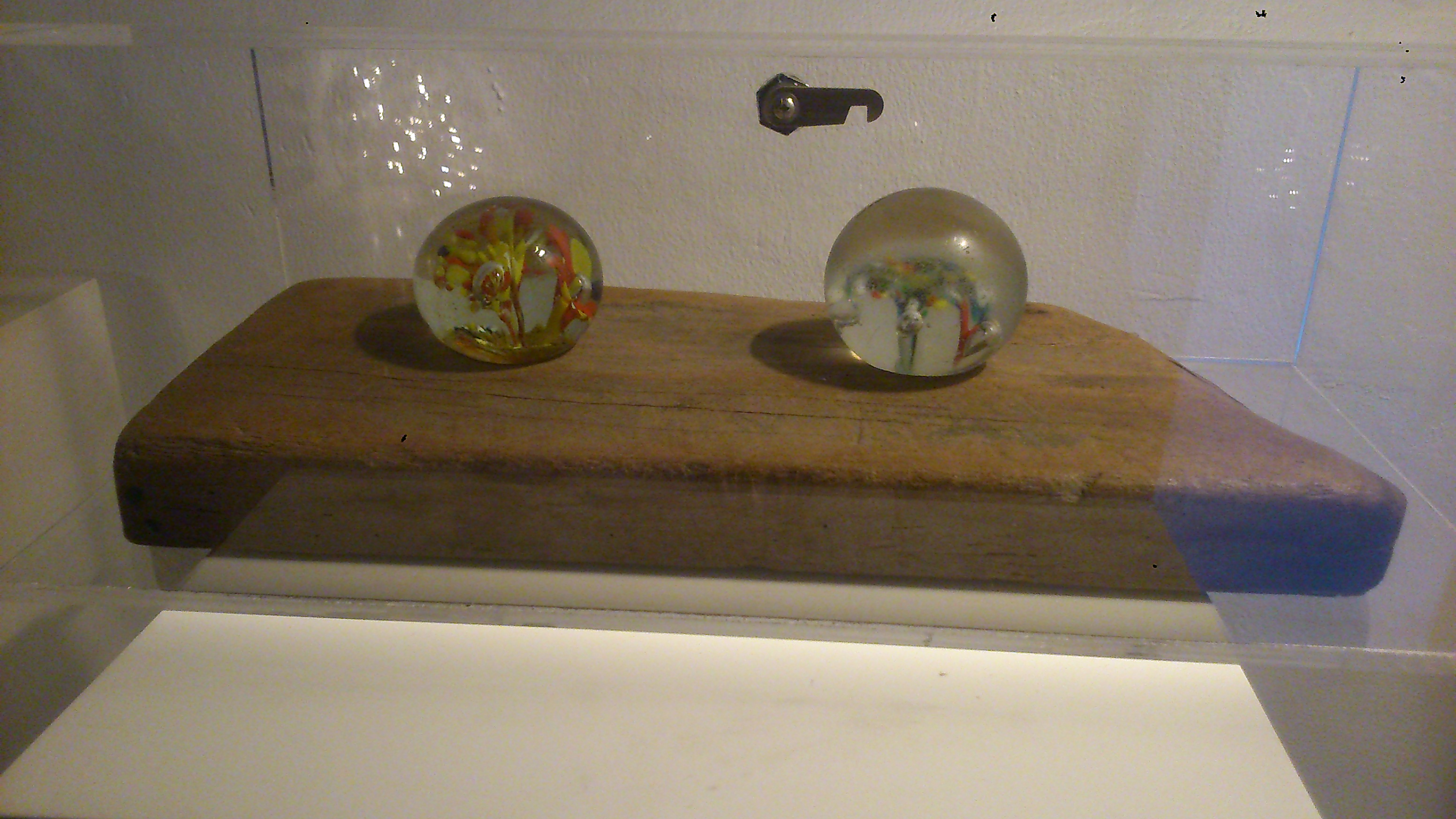 Stones for burnishing kurar embroidery. This is traditional Bahrain embroidery, woven of gold, silwer and silk threads. Exhibit in Jasheer House, Muharraq, Bahrain.